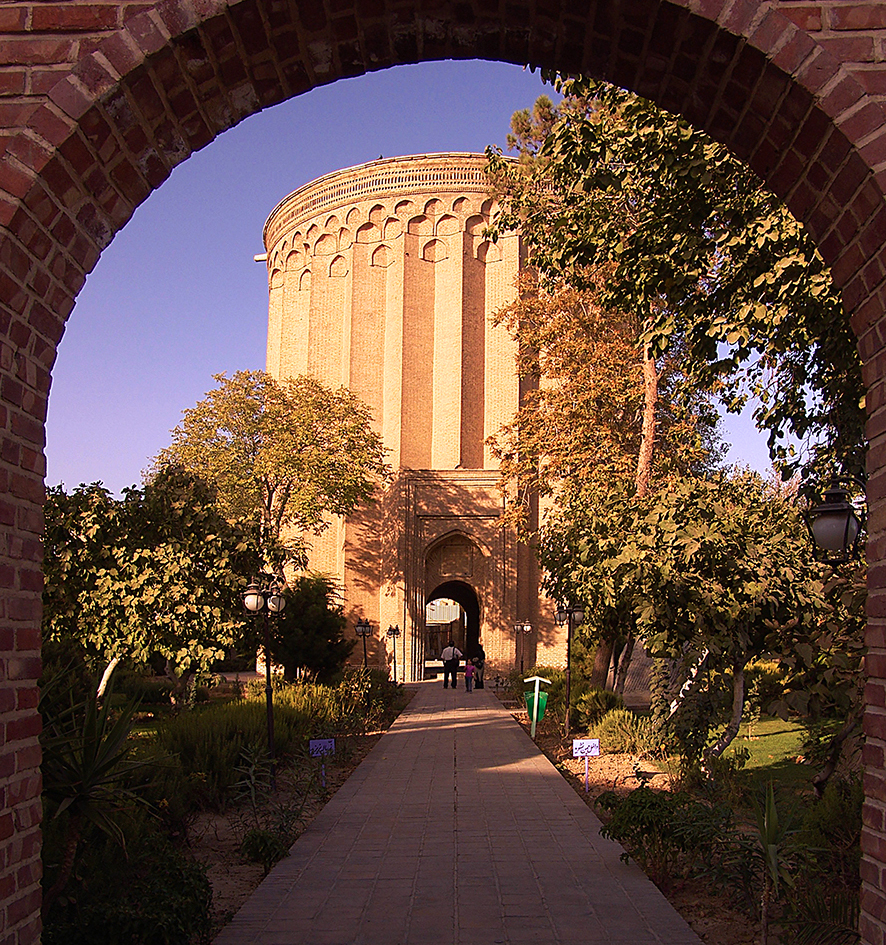 Toghrol Tower in Ray, Tehran Province